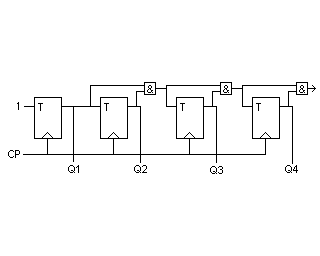 Syncronous counter